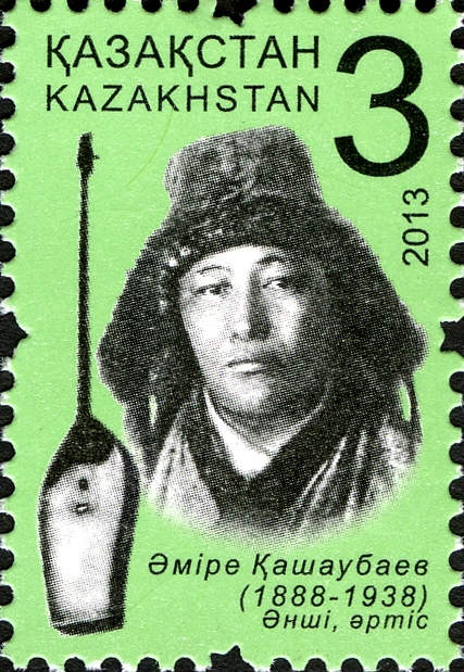 Stamps of Kazakhstan, 2013